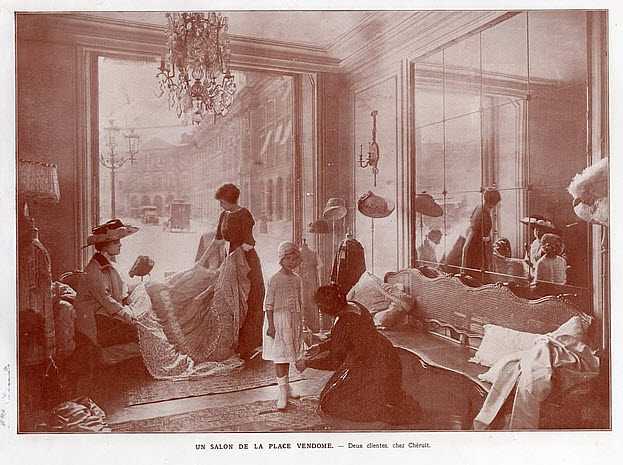 "Un salon de la Place Vendôme, deux clientes chez Chéruit" -- Two clients shopping at the fashion house Chéruit (of Louise Chéruit) at 21 Place Vendôme, Paris, in 1910